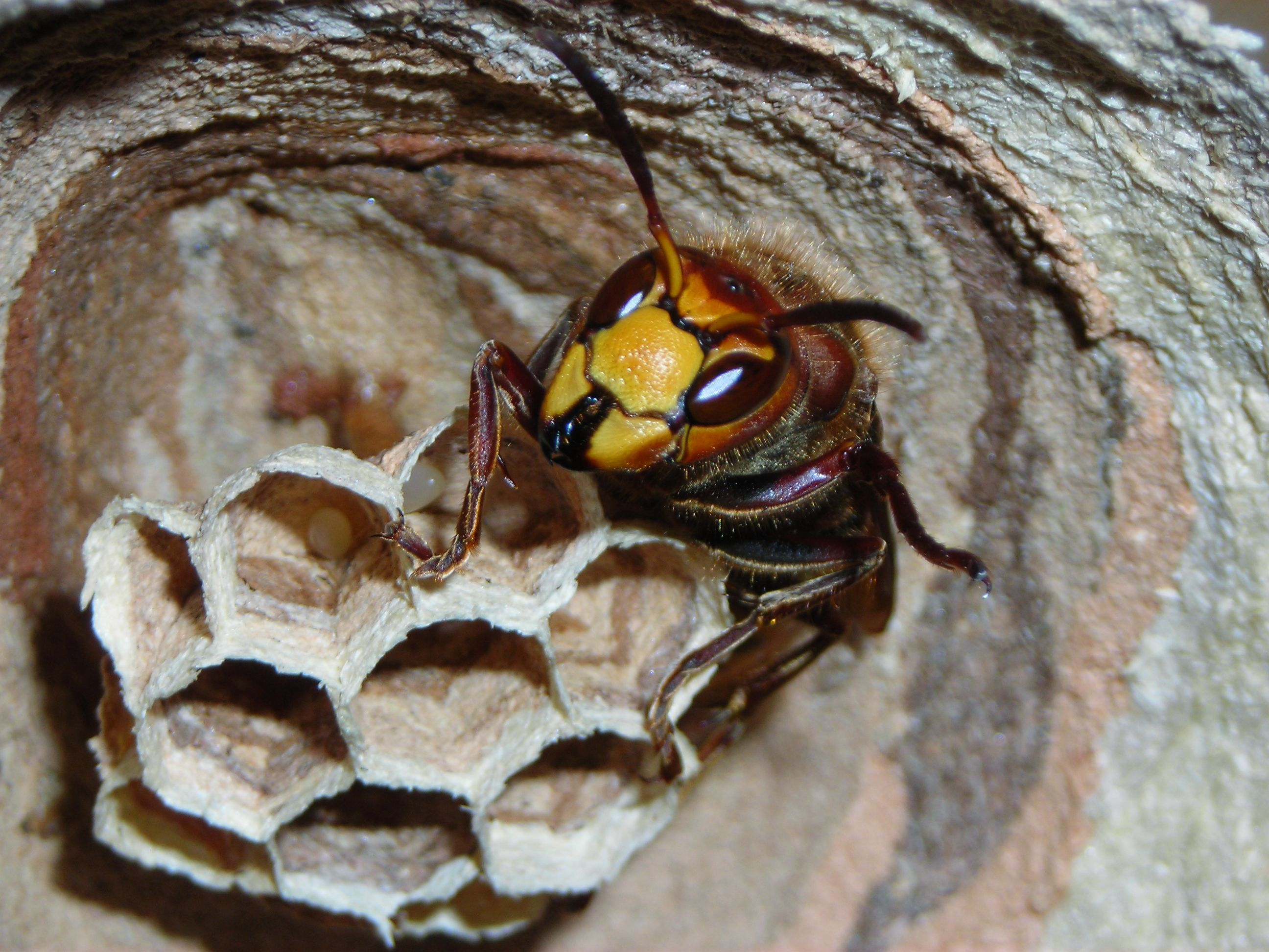 A Hornetqueen (Vespa crabro) is founding a new nest with her first eggs